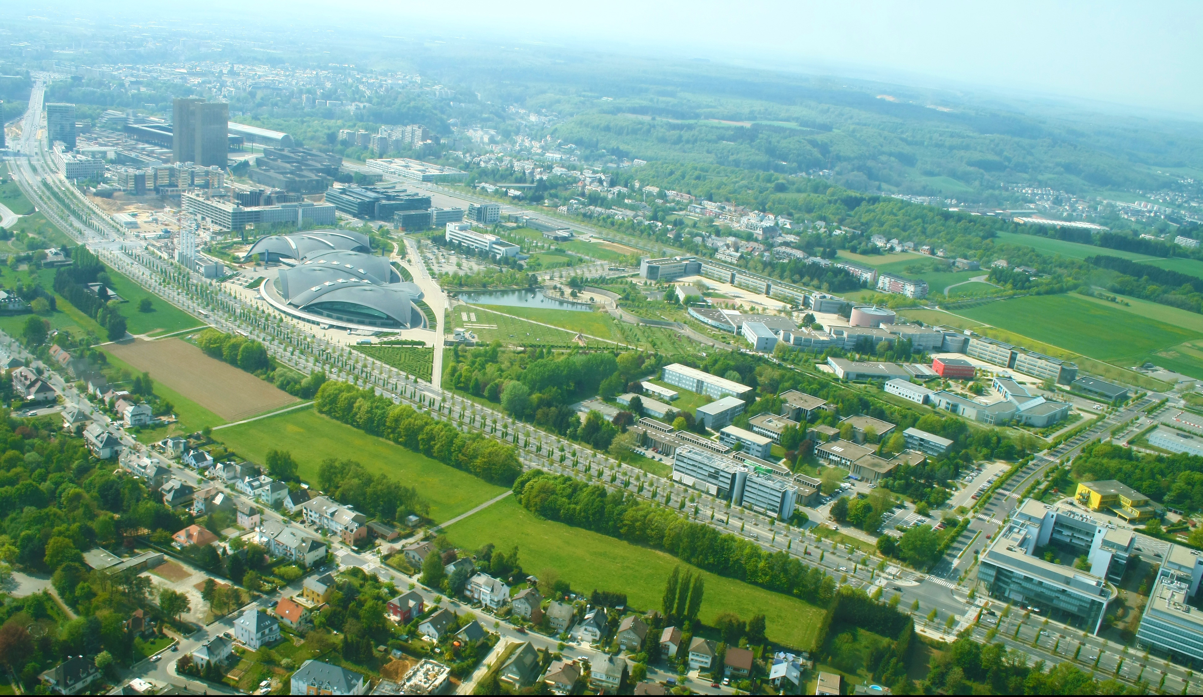 Aerial shot of the Lower Kirchberg Area(Luxembourg), with the University of Luxembourg - Kirchberg Campus in the centre.